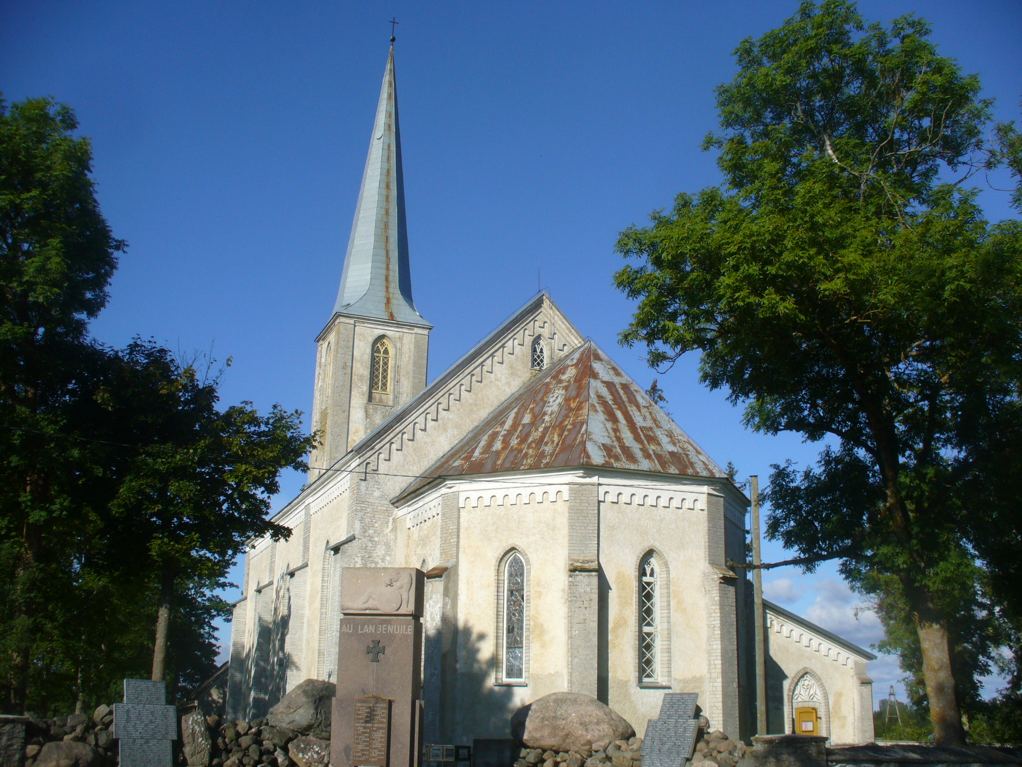 Nissi church. Riisipere, Nissi parish, Harju county, Estonia.